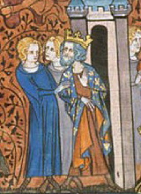 Charles the Simple imprisoned. (British Library, Royal 16 G VI f. 248)